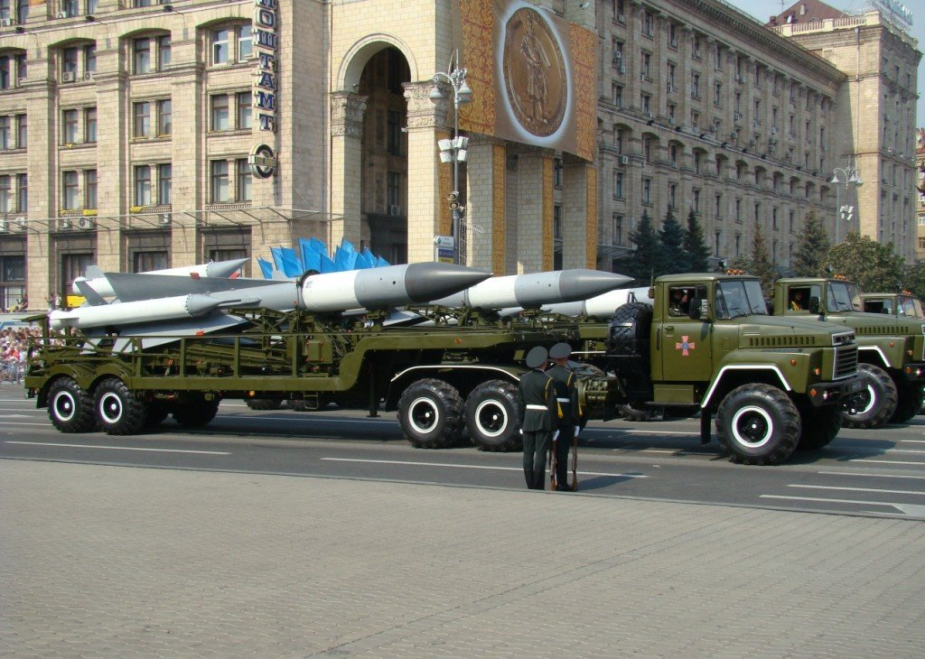 Ukrainian S-200 missiles during the Independence Day parade in Kiev, Ukraine in 2008.